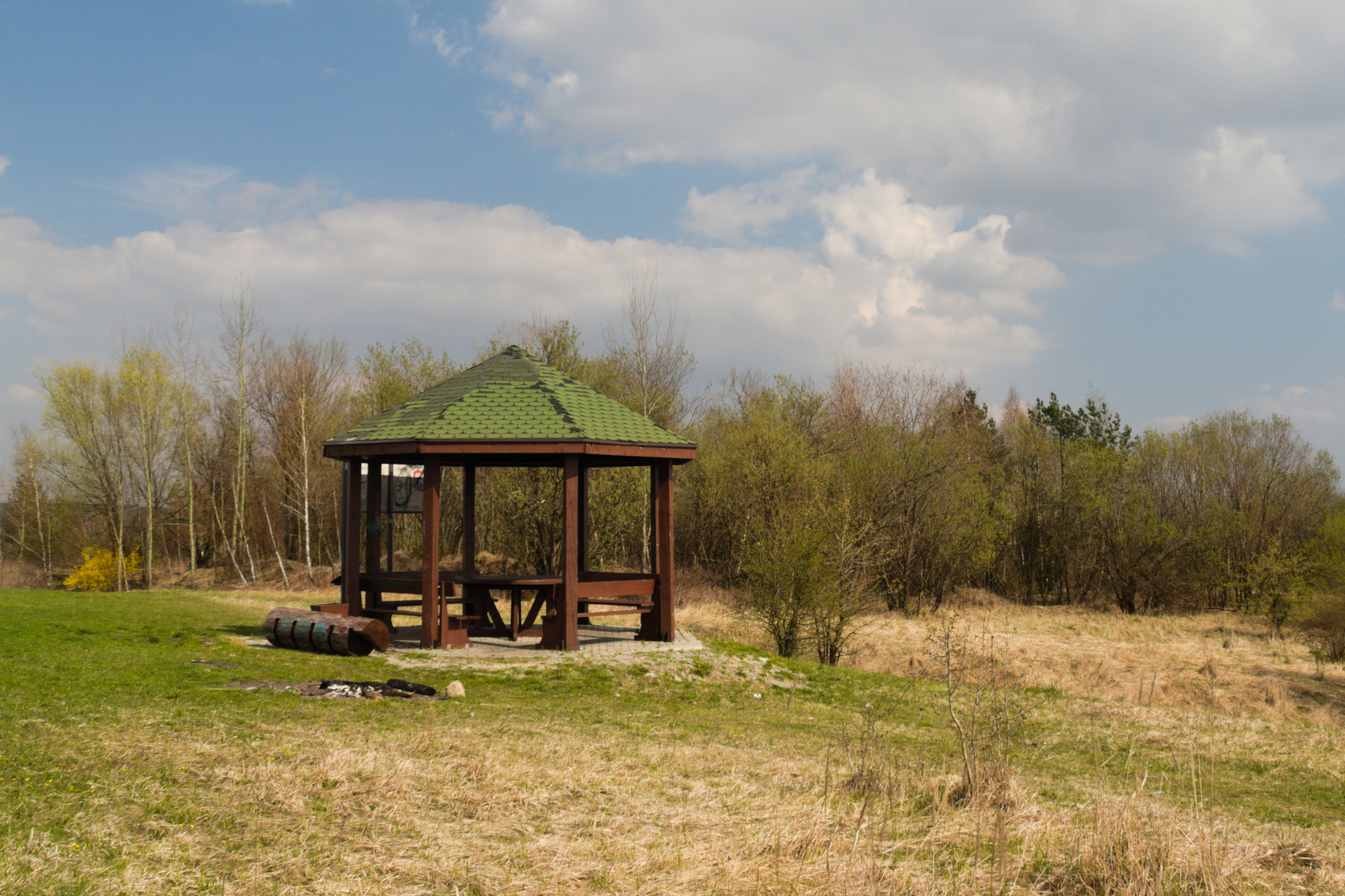 gazebo at Golcówka hill in Imielin